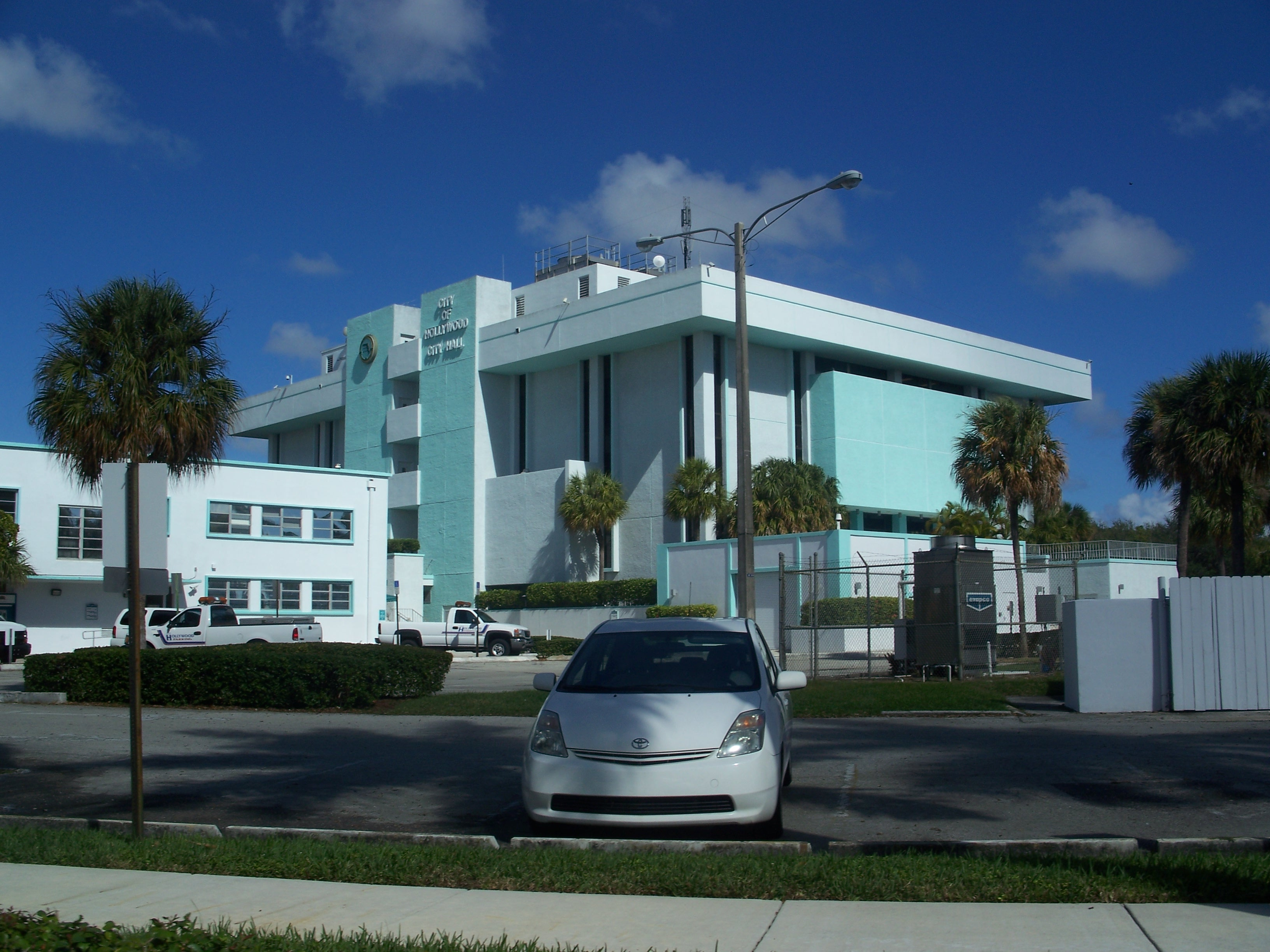 Hollywood, Florida: City hall and annex